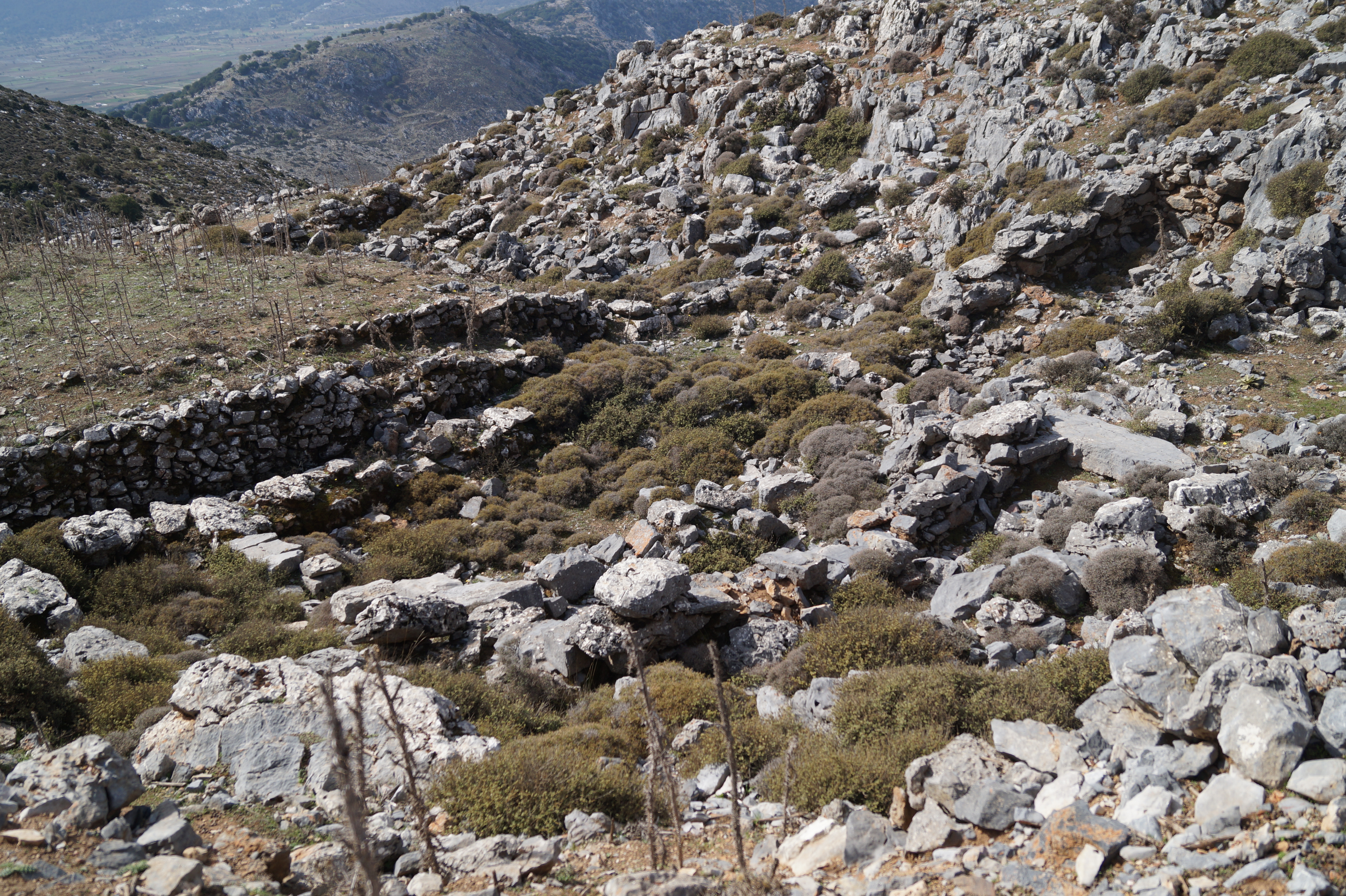 Lasithi, Crete: Rooms 8, 9, 14 and 15 of Minoan settlement of Karfi.